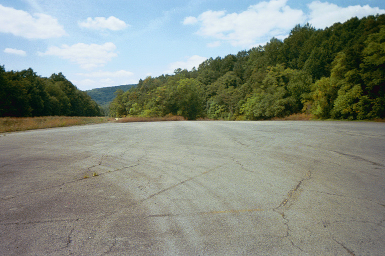 Adding image of the former Cove Valley Travel Plaza. Took myself 08/17/2006.